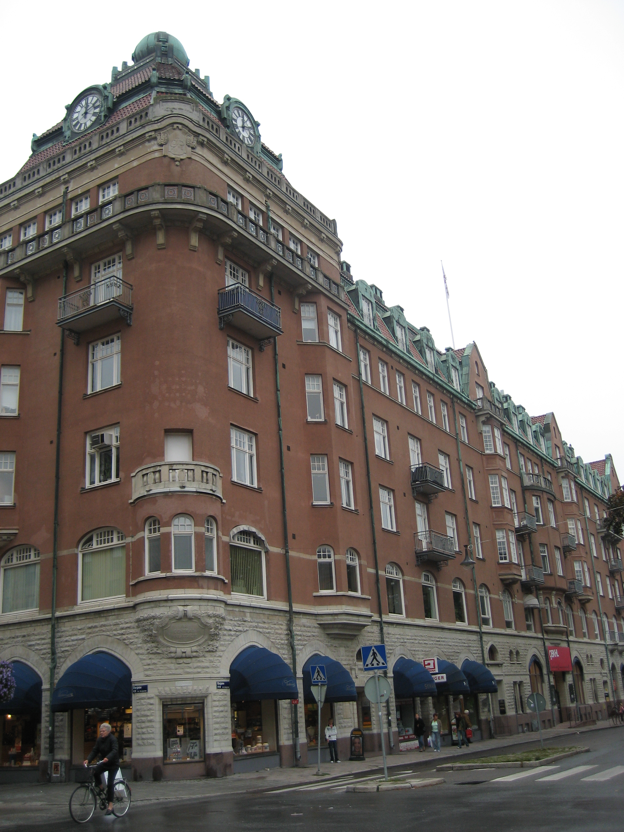 A photo of Centralpalatset in Örebro, Sweden